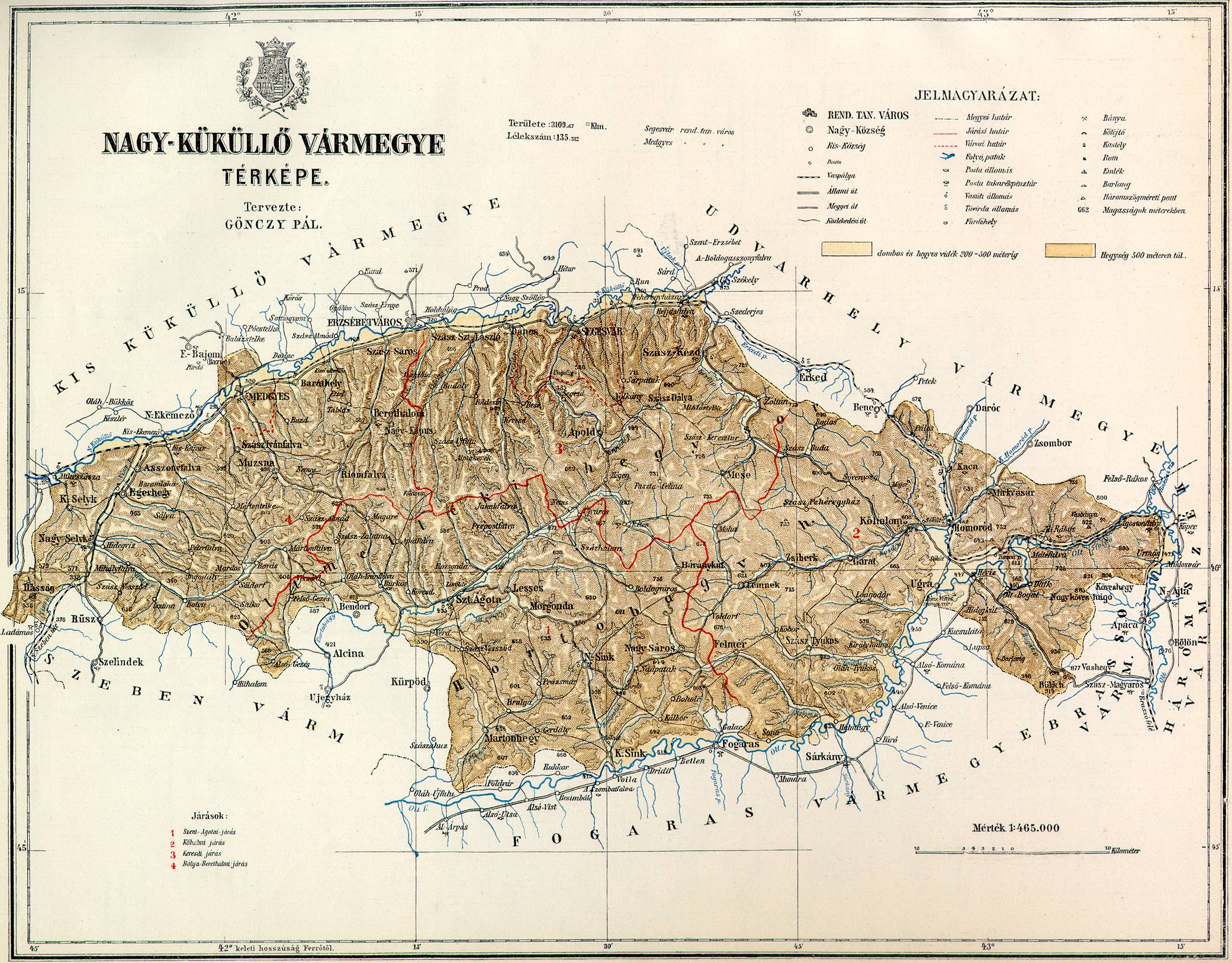 County of Nagy-Küküllő in the pre-Trianon Kingdom of Hungary. Komitat Nagy-Küküllő w Królestwie Węgier przed traktatem w Trianon.